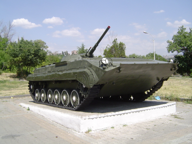 This is an Armenian BMP-1 Armored Fighting Vehicle (BMP), located at Victory Park in Yerevan, Armenia.